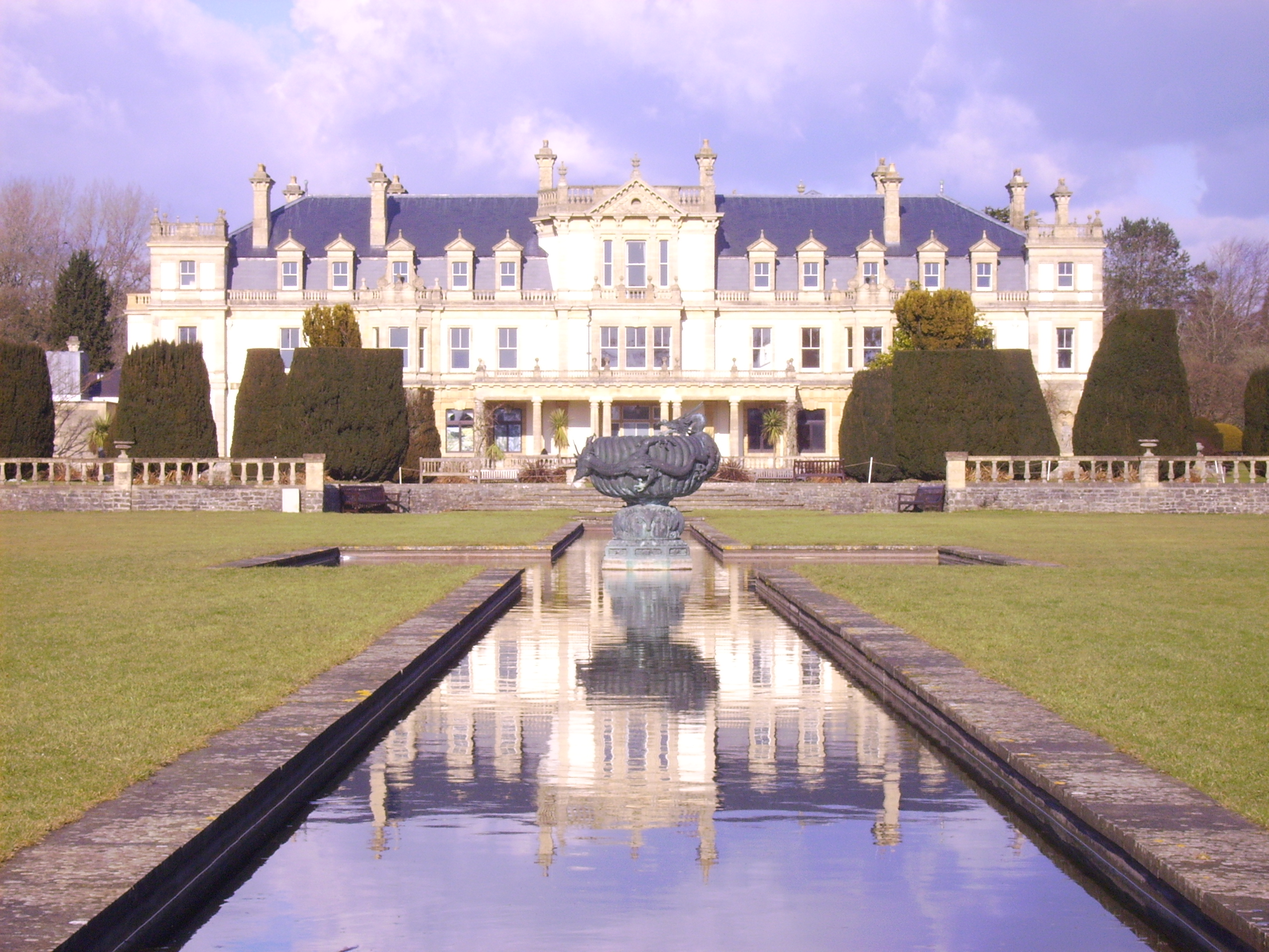 Dyffryn House, in Dyffryn Gardens, Vale of Glamorgan, Wales. Taken from the Great Lawn